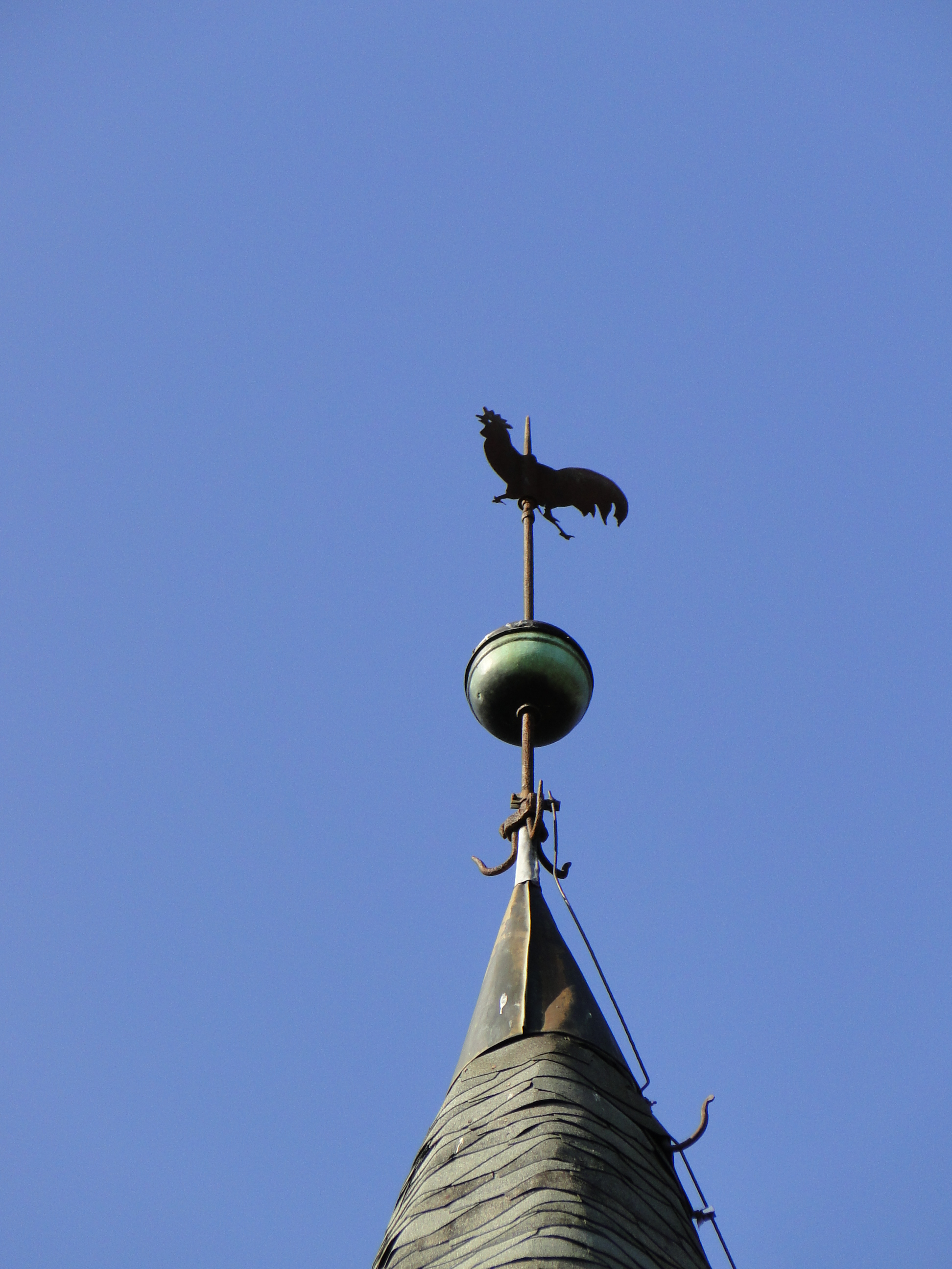 Top of the tower at church in Below, district Ludwigslust-Parchim, Mecklenburg-Vorpommern, Germany